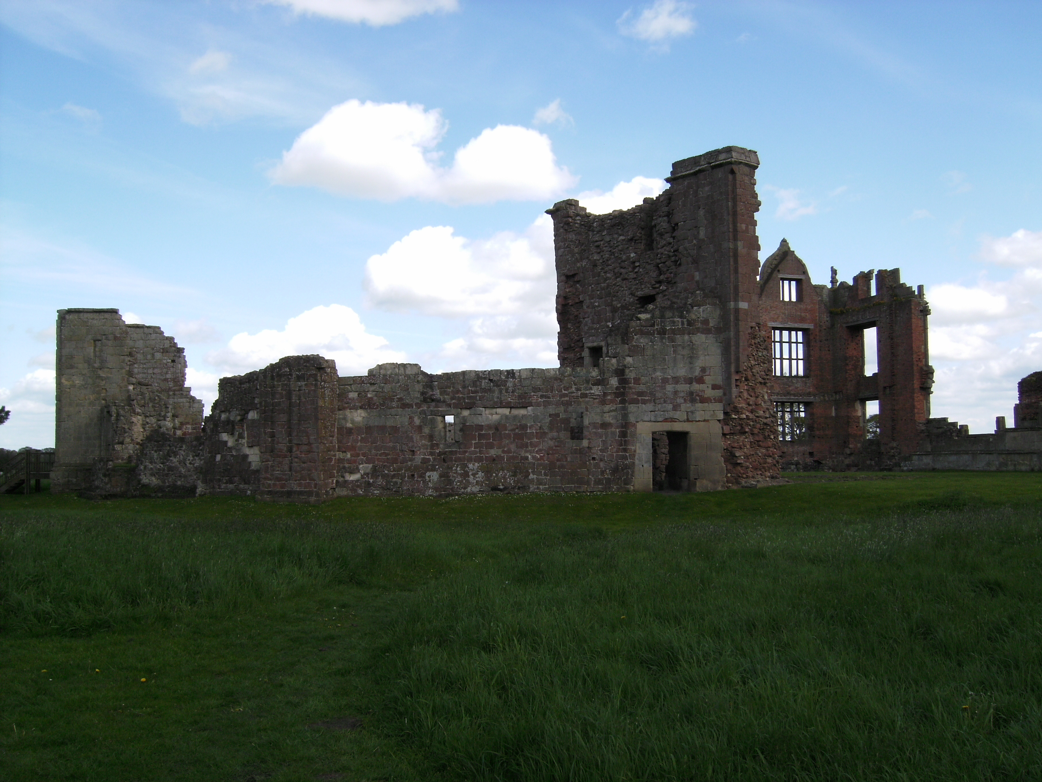 General view of medieval castle from west, with Elizabethan house behind. Moreton Corbet Castle, Shropshire.